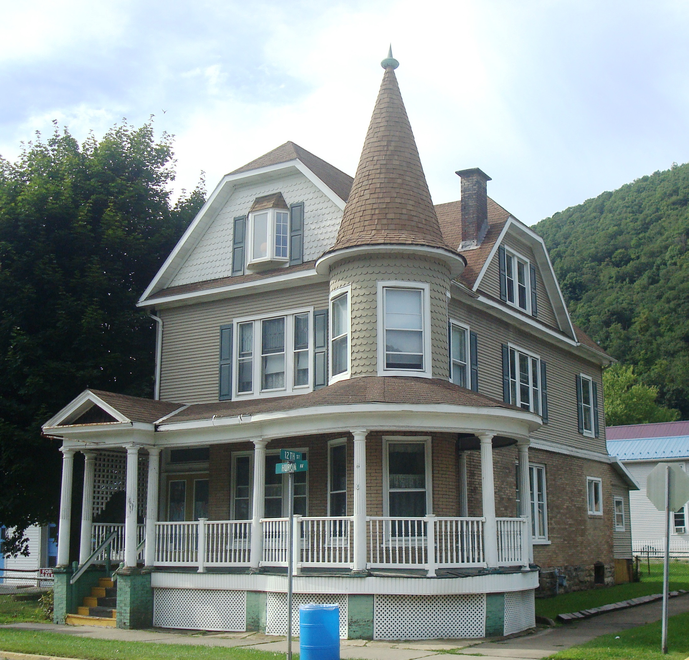 A house at 1159 Huron Avenue on the corner of 12th Street in Renovo, Pennsylvania.